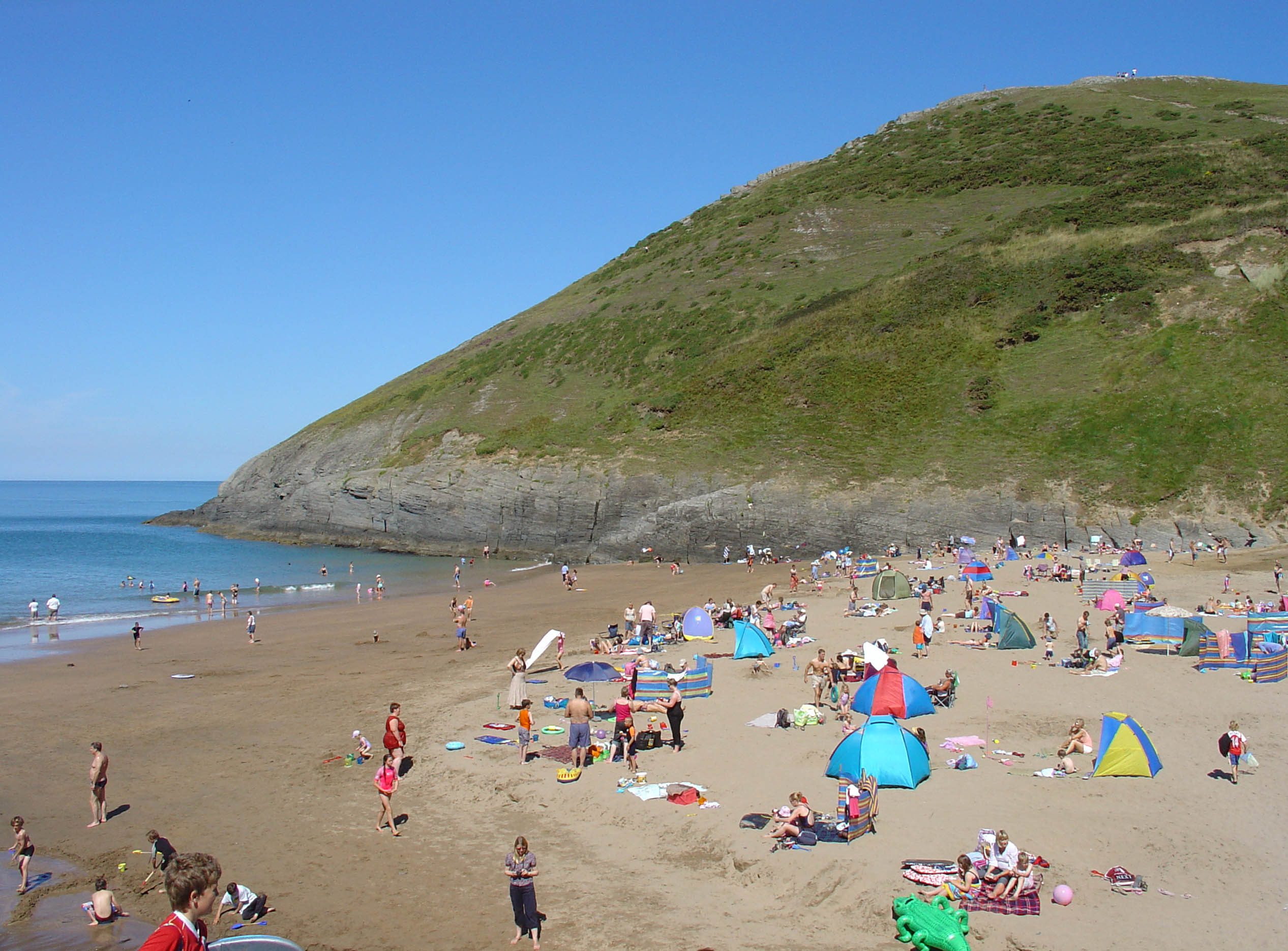 Mwnt beach on a summer day.